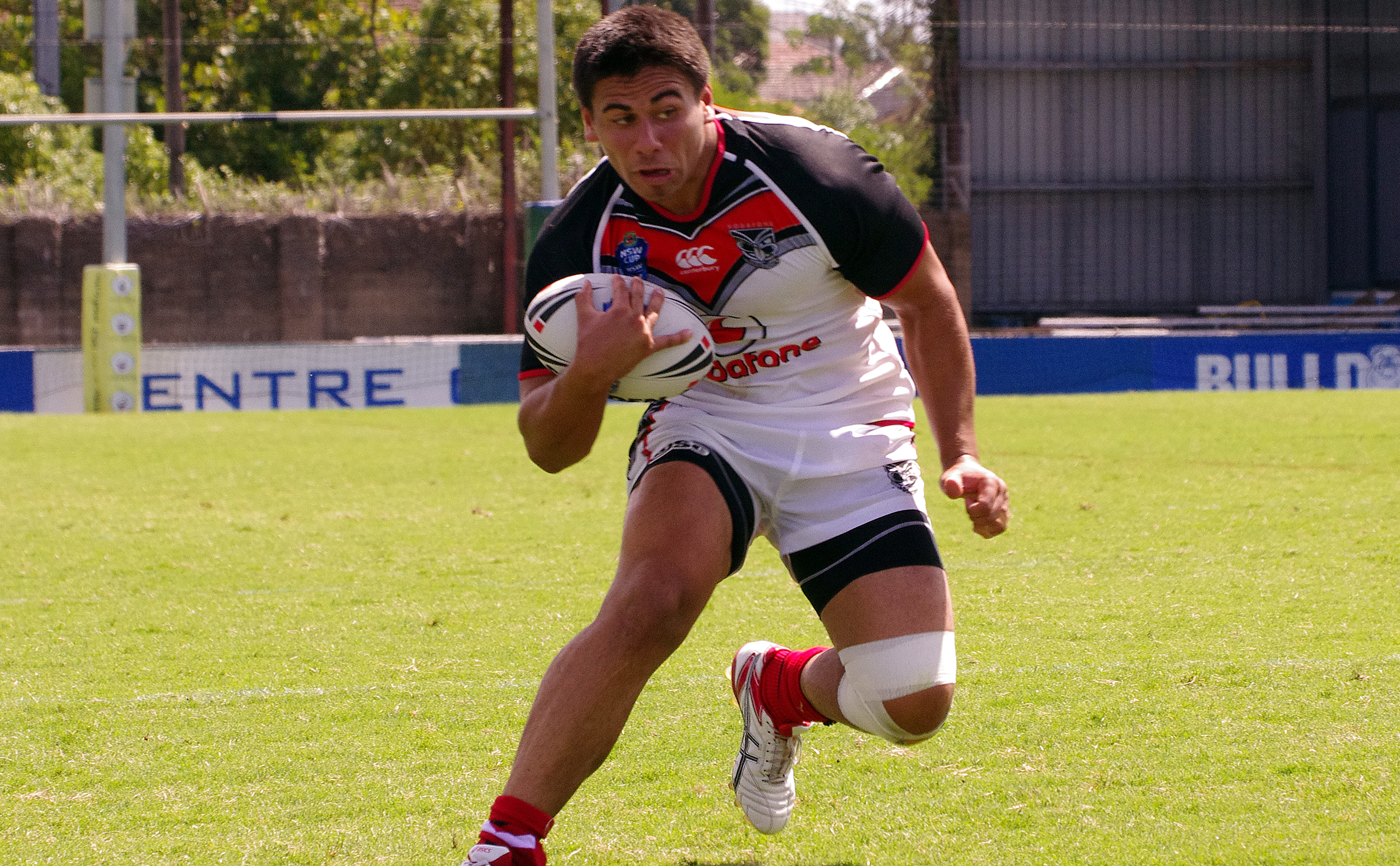 Ben Henry